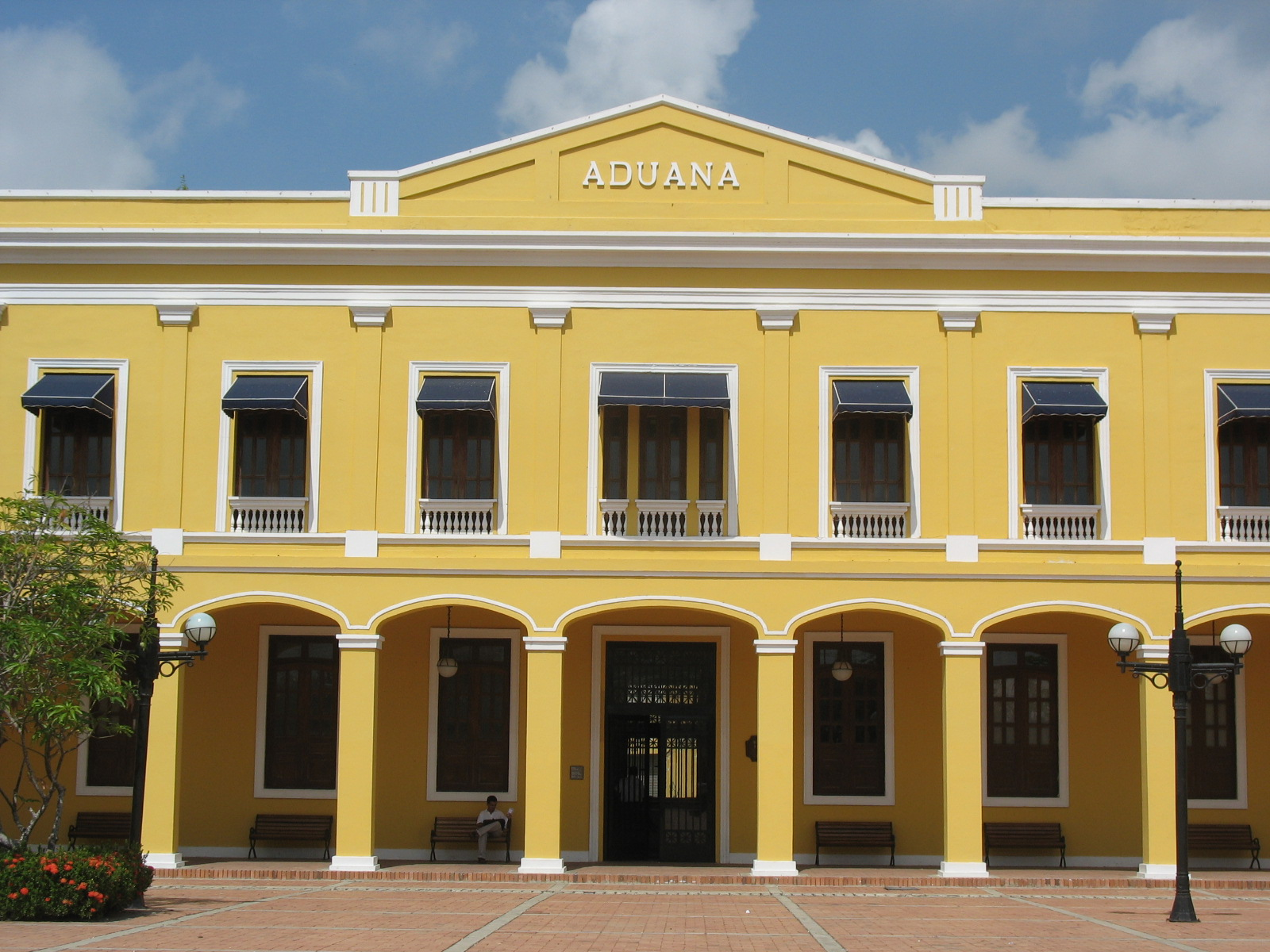 Barranquilla's Old Customs Building